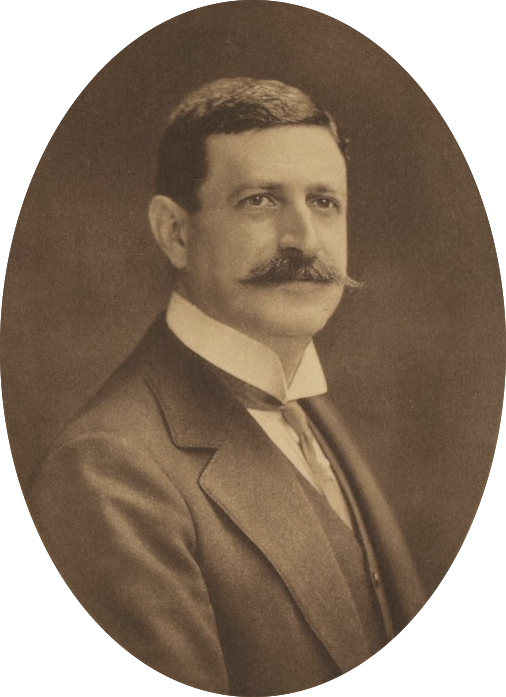 French composer Fernand Halphen (1872-1917).